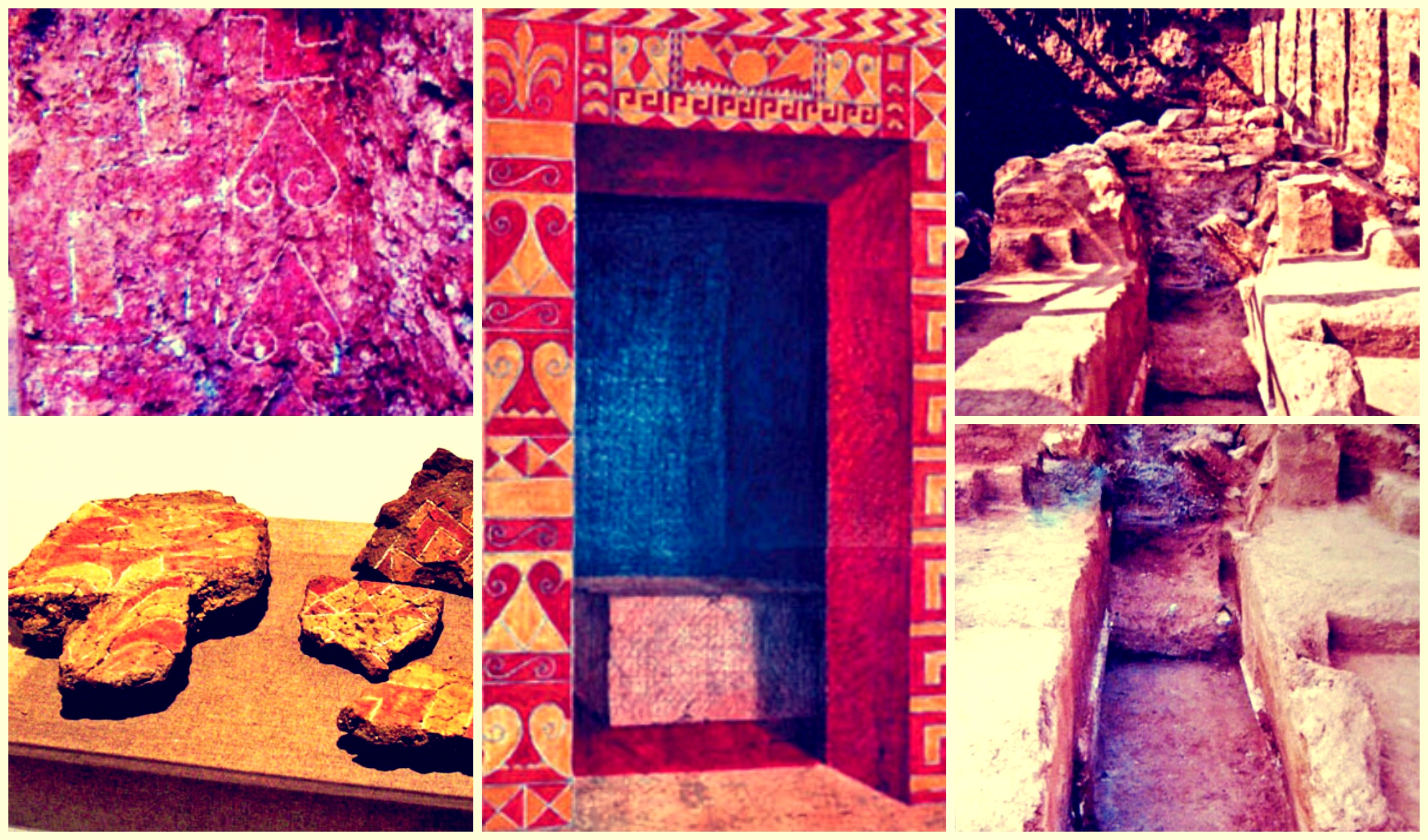 Ruzhitza tomb Southeast Bulgaria